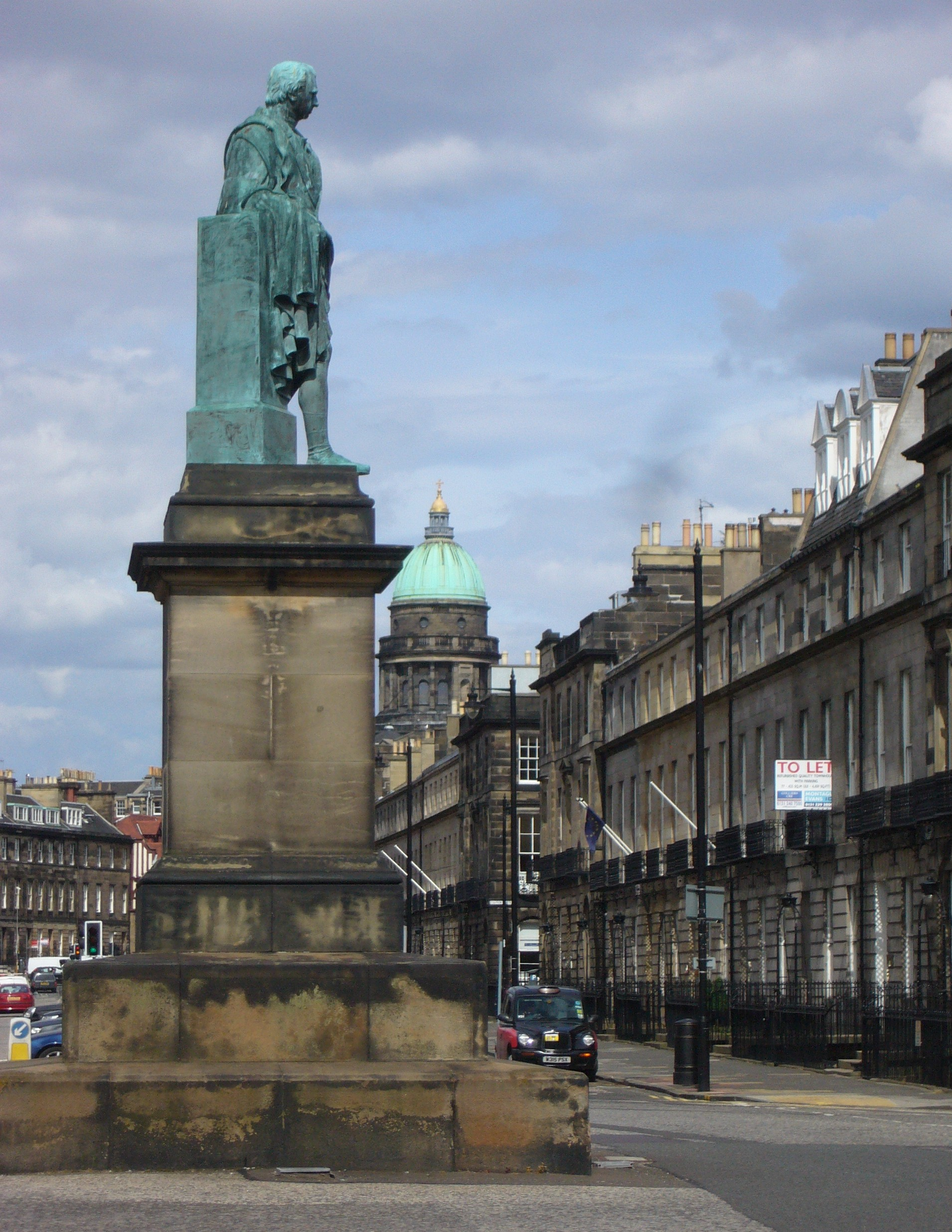 Statue of Robert Dundas, 2nd Viscount Melville in one of Edinburgh's grandest streets, named after him.